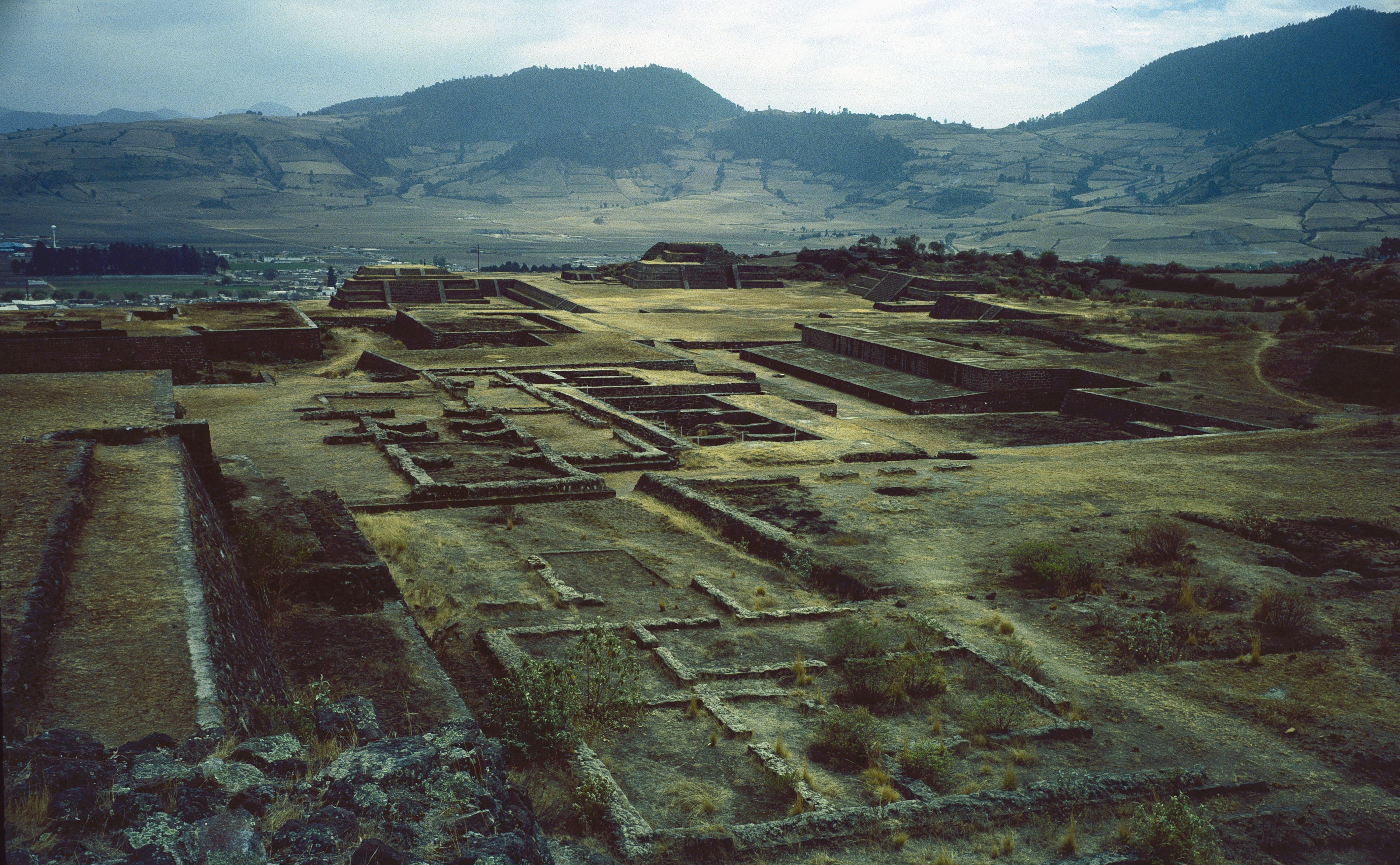 Teotenango, Estado de México, Mexico